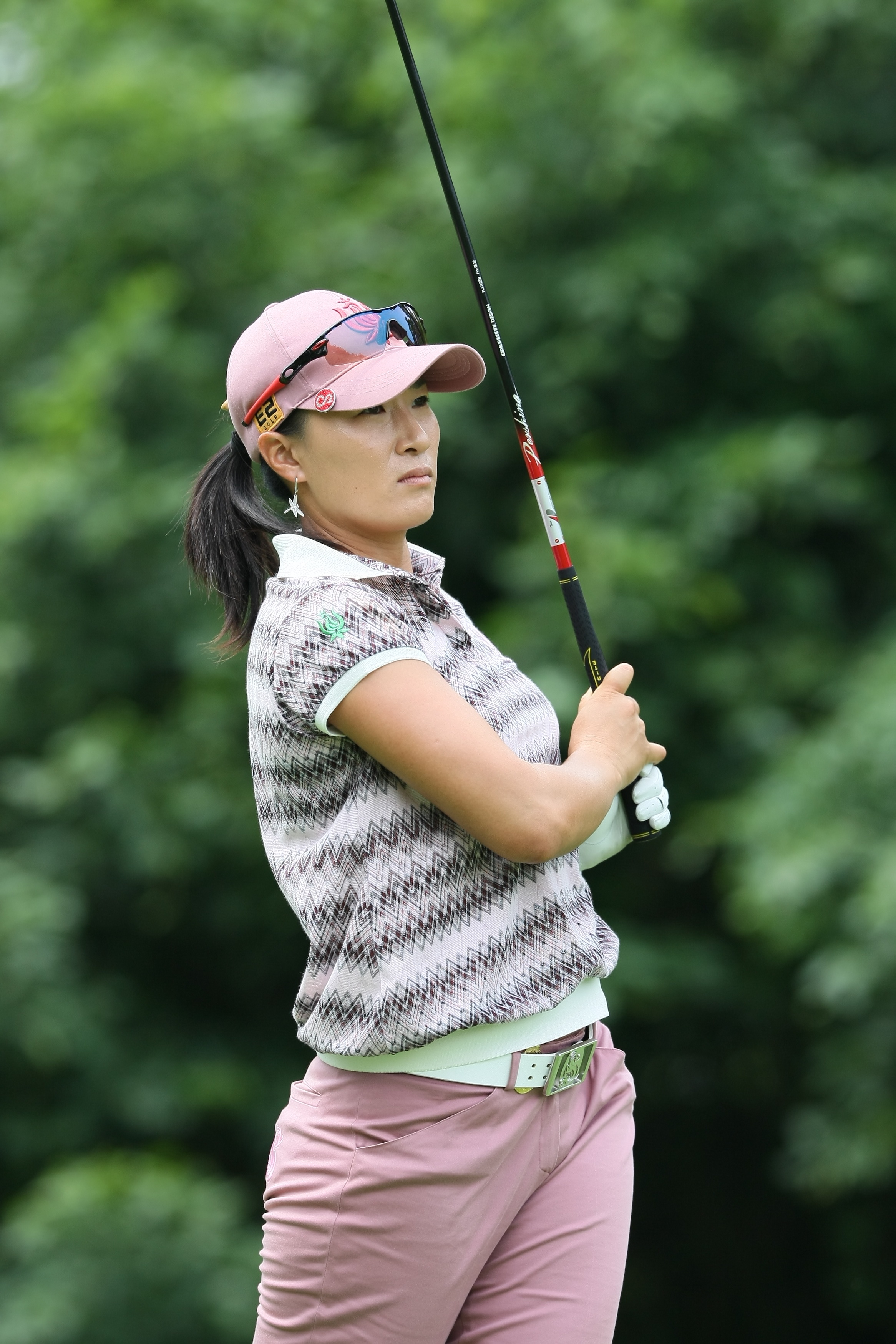 HAVRE DE GRACE, MD - JUNE 09: Se Ri Pak (KOR) during Pro-Am before 2009 LPGA Championship held at Bulle Rock Golf Course, on June 9, 2009 in Havre de Grace, Maryland. (Photo by Keith Allison)